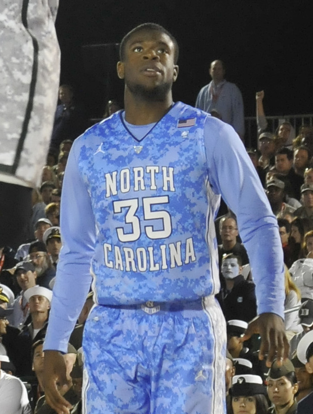 SAN DIEGO (Nov. 11, 2011) North Carolina Tar Heels guard Reggie Bullock during the Quicken Loans Carrier Classic basketball game aboard the Nimitz-class aircraft carrier USS Carl Vinson (CVN 70). The inaugural Carrier Classic is a celebration of Veterans Day. ((U.S. Navy photo by Mass Communication Specialist 3rd Class Roza Arzola/Released)